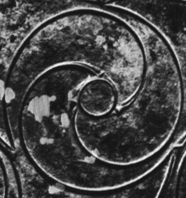 Celtic yin yang whorl in a triskele arrangement; detail of the center of a bronze disc; find spot: Longban Island, Derry; pre-Christian period; on display at Ulster Museum in Belfast